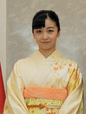 Princess Kako, photographed in Hungary